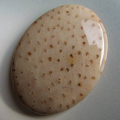 cabochon of agatized fossil palm wood from south-central United States (TX-LA)